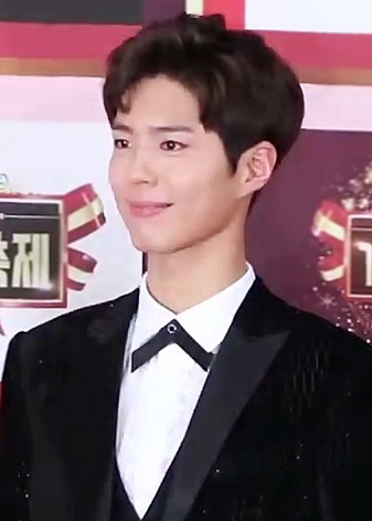 Park Bo-gum at 2016 KBS Song Festival